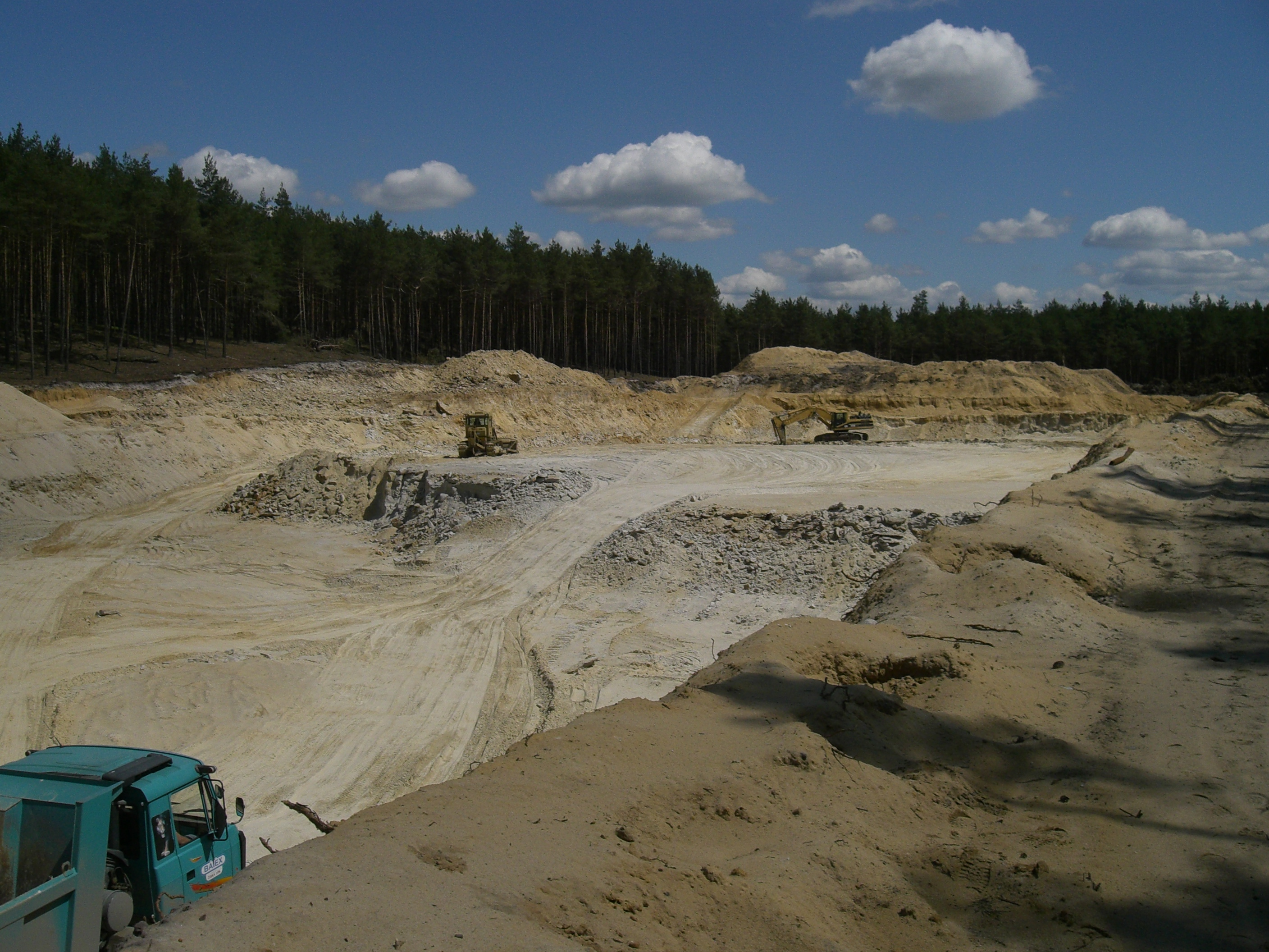 New open sand mine, Czech Republic.